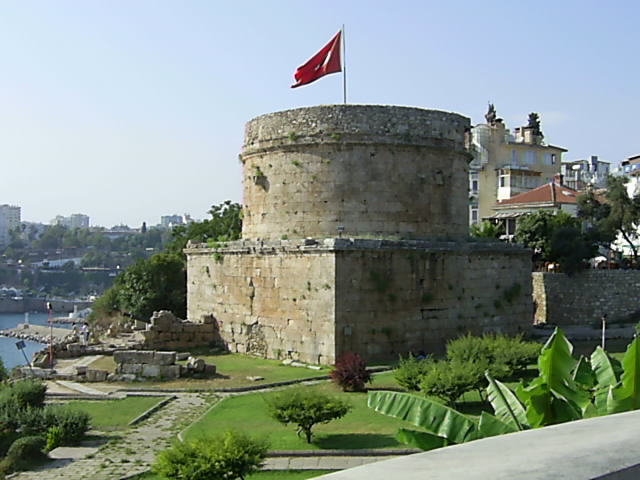 нурбек